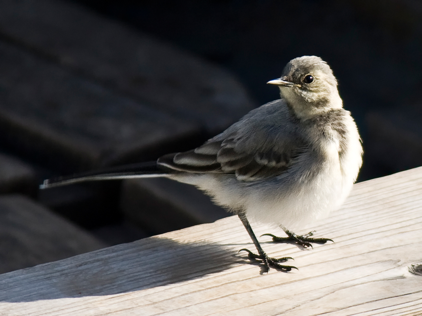 Motacilla alba